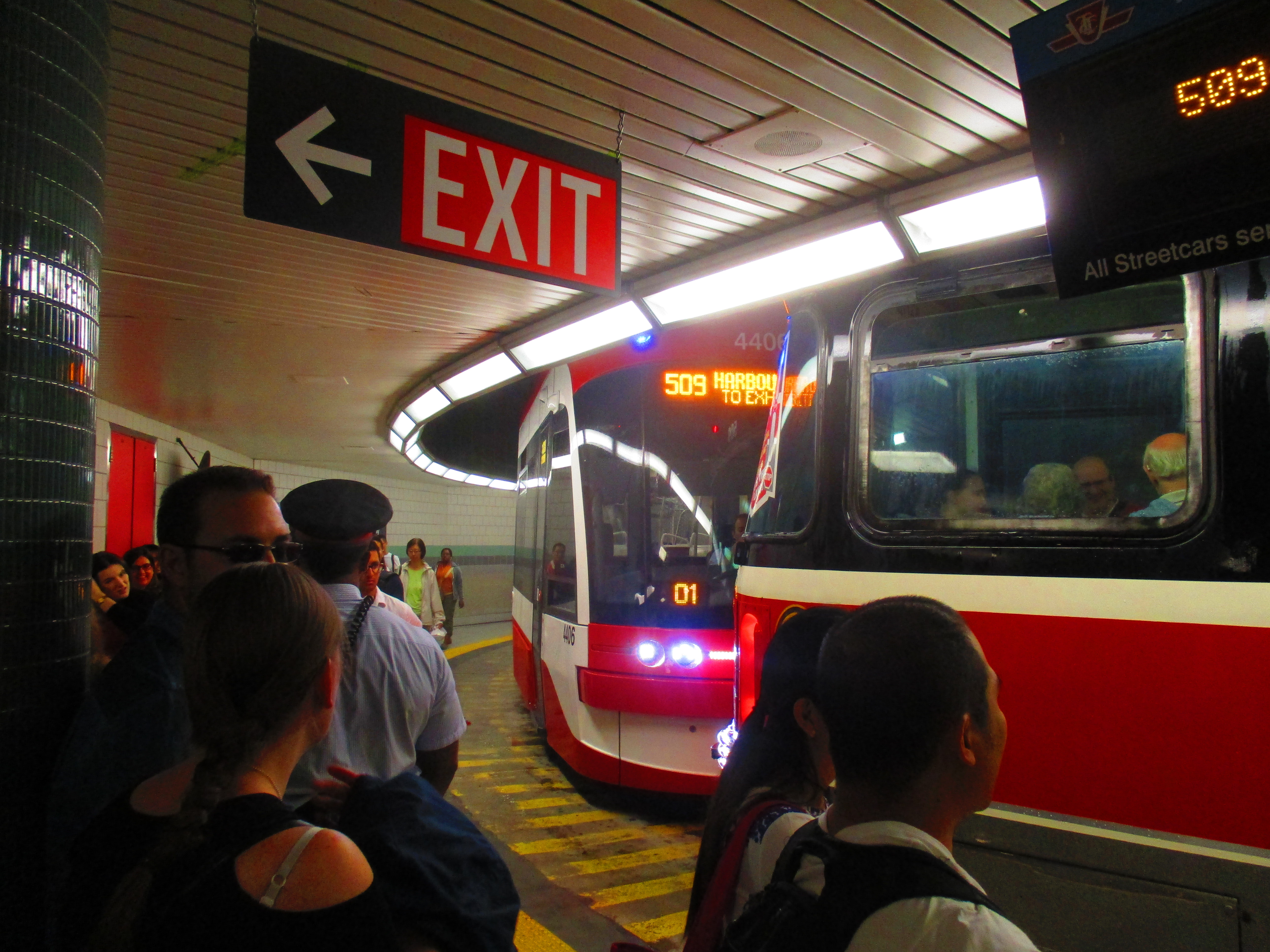 Union station loop, 2016 07 01 (2)